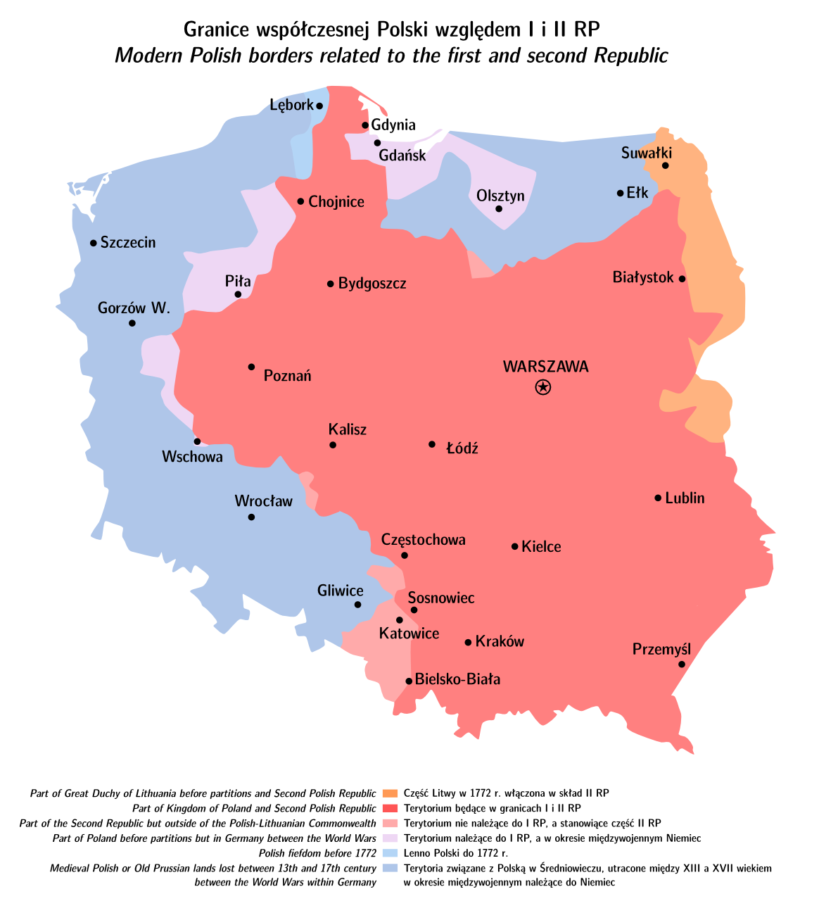 Territories of the First and Second Republics within modern Poland